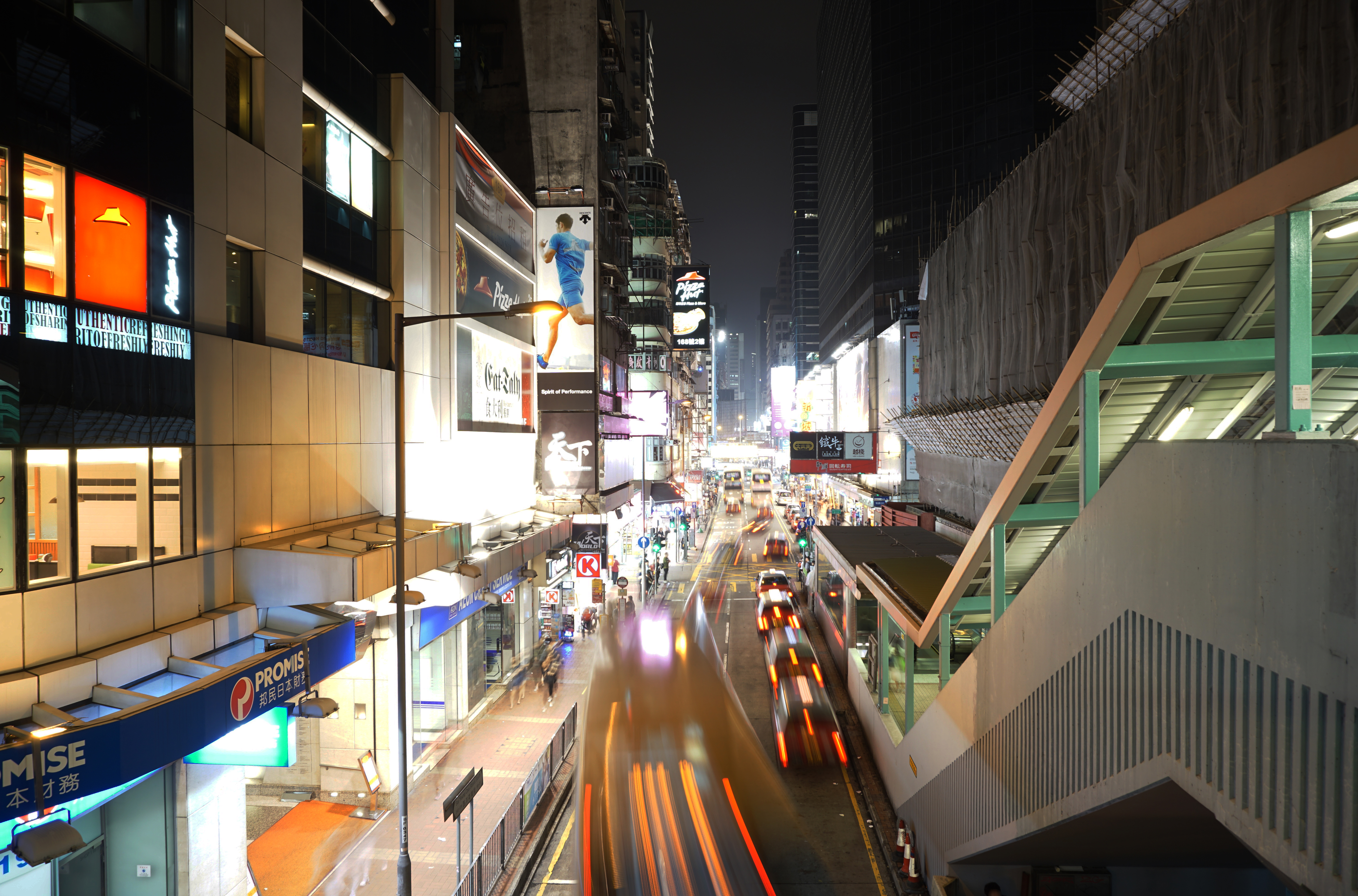 Sai Yeung Choi Street South in Mong Kok, Hong Kong.